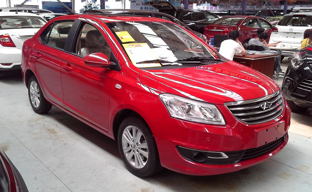 Chery E3 photographed in Chengdu, Sichuan province, China.